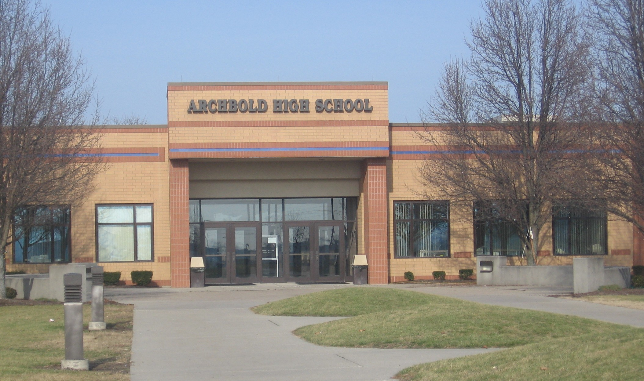 A photo of Archbold High School, taken by the uploader.